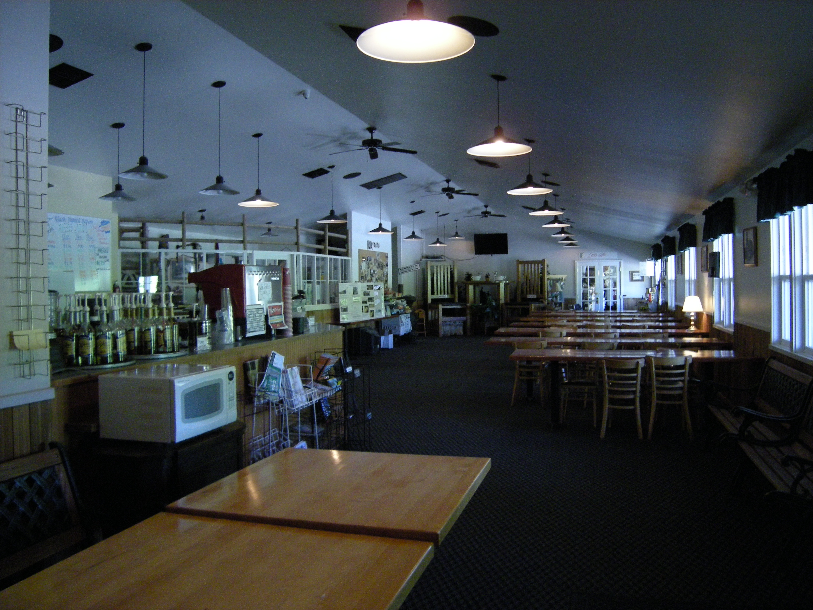 Coffee house, Black Diamond Bakery, Railroad Avenue, Black Diamond, Washington, USA.